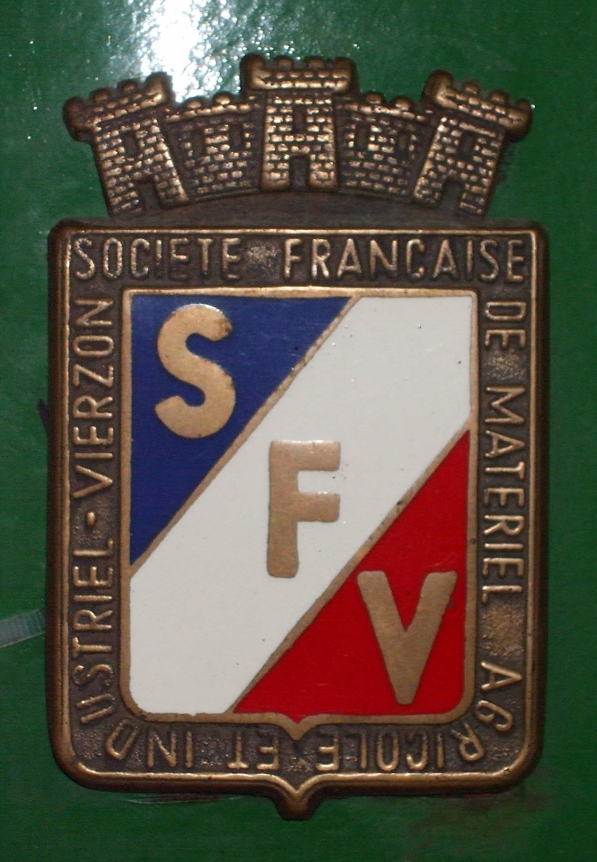 Vierzon 302, build 1954, 33 KW (45 HP)